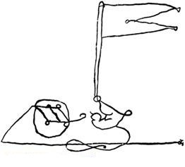 Stylized signature of Solomon Molcho, from a manuscript owned by the Alliance Israélite Universelle at the beginning of the 1900s.